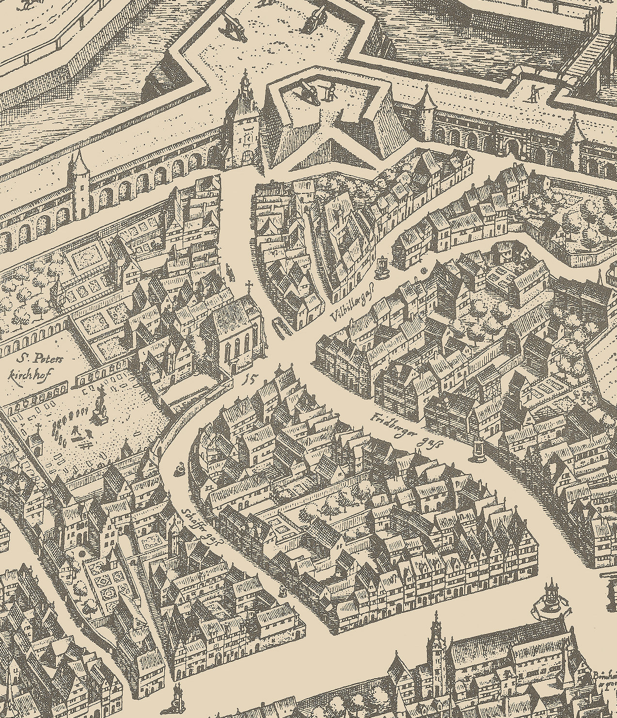 Details of the map of the city of Frankfurt am Main, Germany: Grosse Friedberger Strasse